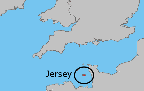 Image of the Crown Dependencies